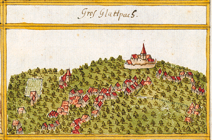 View of Großglattbach, Mühlacker, from the forest register books created by Andreas Kieser